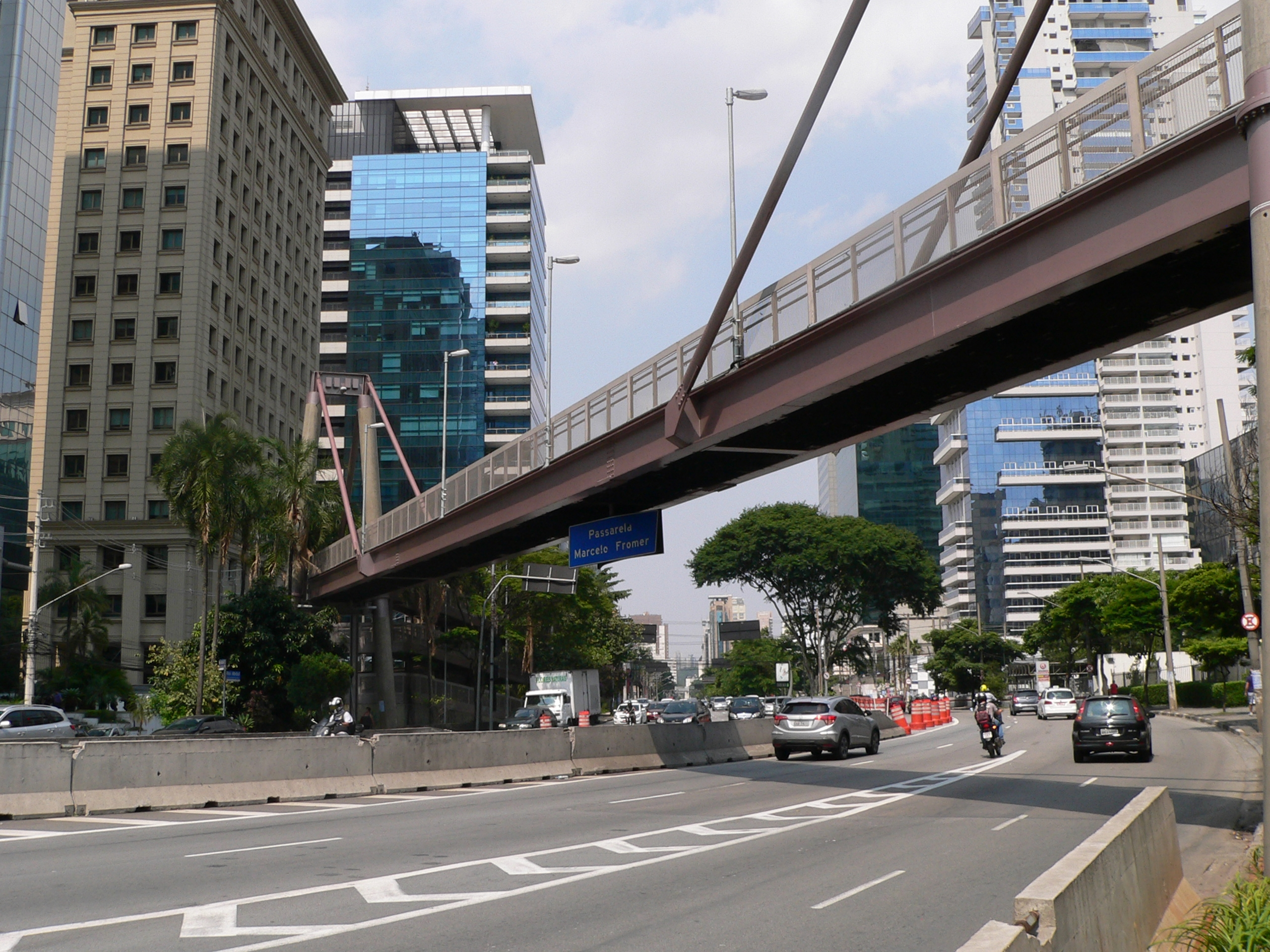 Marcelo Fromer Skyway over Juscelino Kubitschek Avenue, in São Paulo, Brazil. It was built in 2001 and named after the rock band Titãs guitarist who was hit and killed by a motorcycle at Europa Avenue (not too far from there) earlier that year. Português do Brasil: Passarela Marcelo Fromer na Avenida Juscelino Kubitschek em São Paulo, Brasil. Foi construída em 2001 e batizada com o nome do guitarrista dos Titãs que foi atropelado e morto por uma motocicleta na Avenida Europa (não muito longe dali) naquele ano.